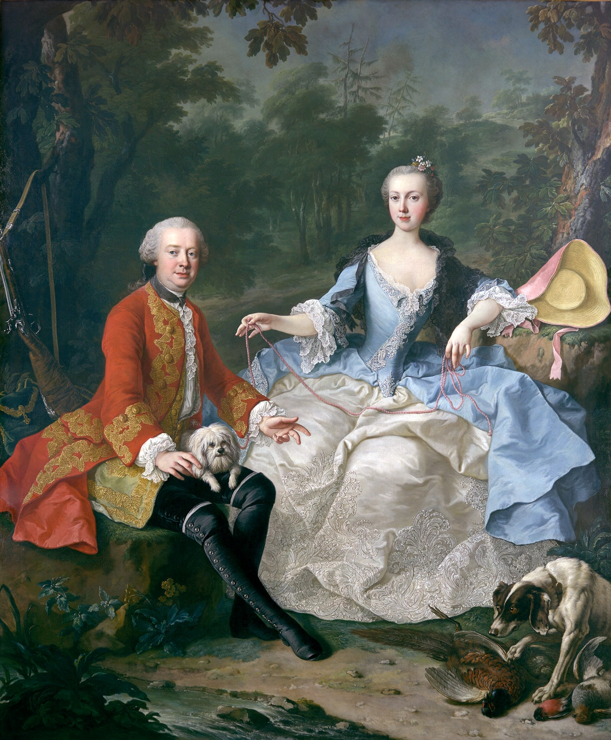 Count Giacomo Durazzo (1717–1794) in the Guise of a Huntsman, with His Wife (Ernestine Aloisia Ungnad von Weissenwolff, 1732–1794)